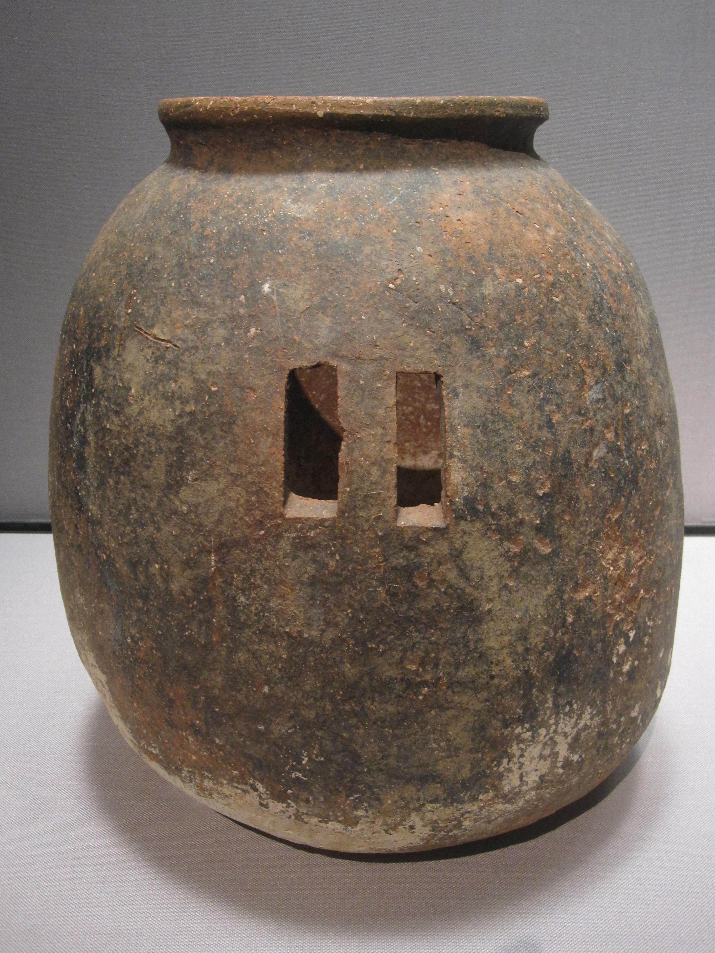 Panari ware jar made in 17th-Ryukyu kingdom, the collection of Tokyo National Museum.